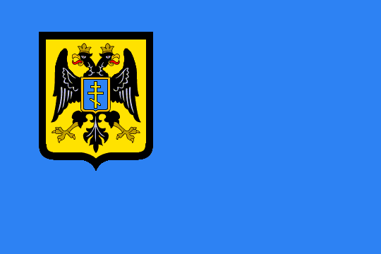 Flag of the Crimean Regional Government under general Sulkievich in 1918.